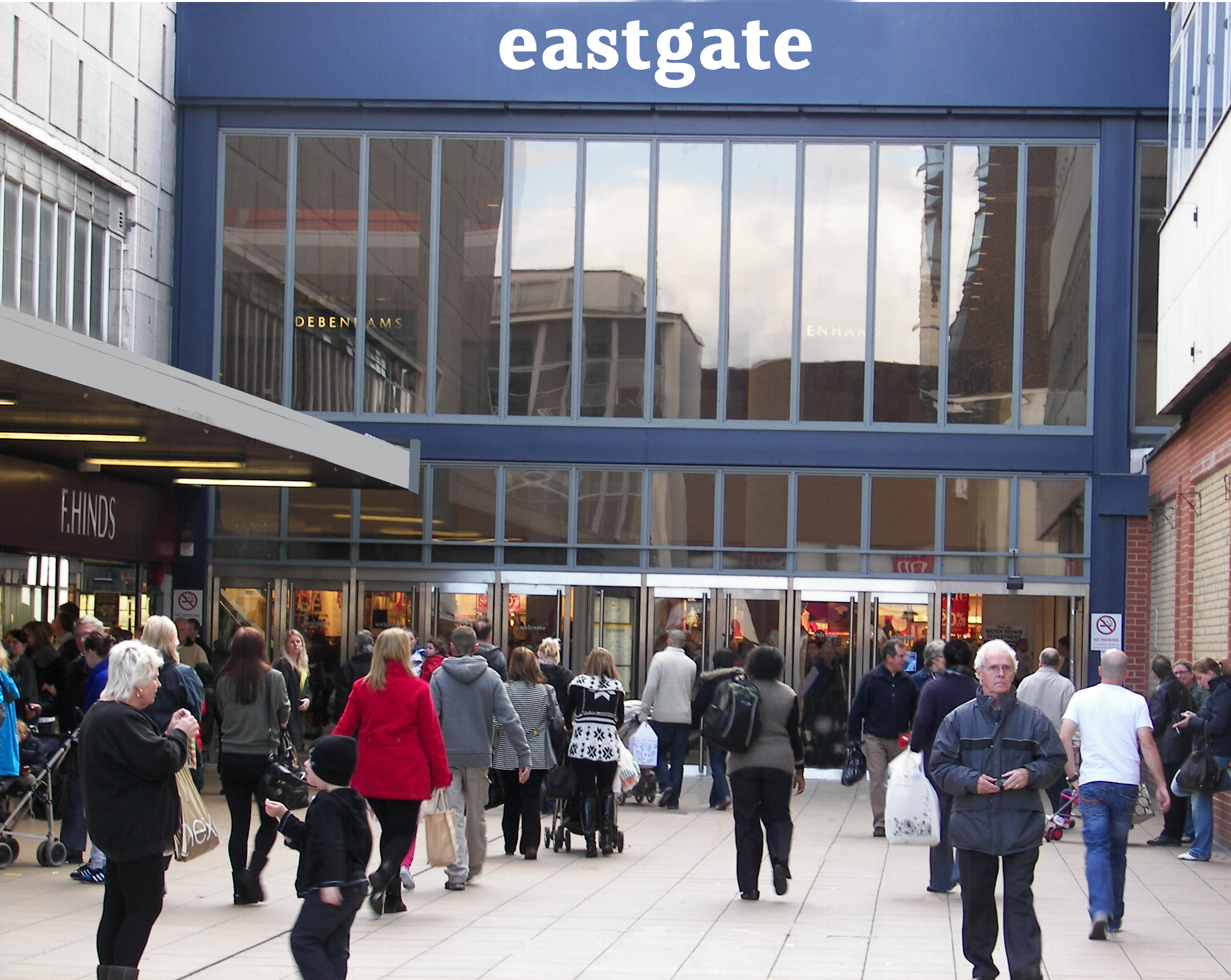 South Square external entrance